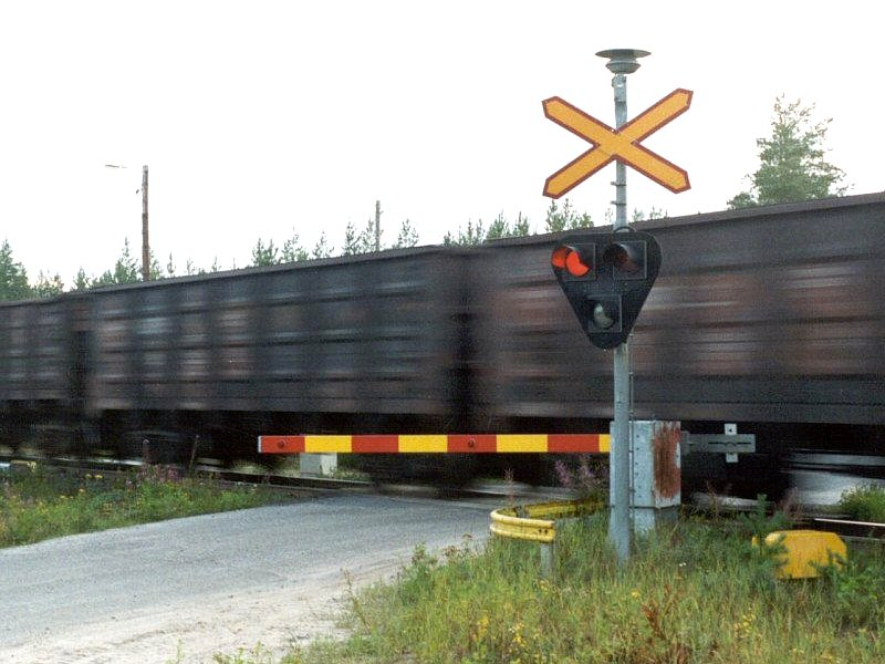 Activated level crossing with warning lights, bells and semi-gates at Pikkarala, Oulu, Finland. Photographed at 05:17 in the morning on 8 August 2003